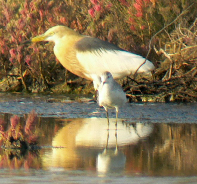 Javan Pond Heron Thailand in Feb 2008. Unusually early in breeding plumage Other bird is a Marsh Sandpiper. My image